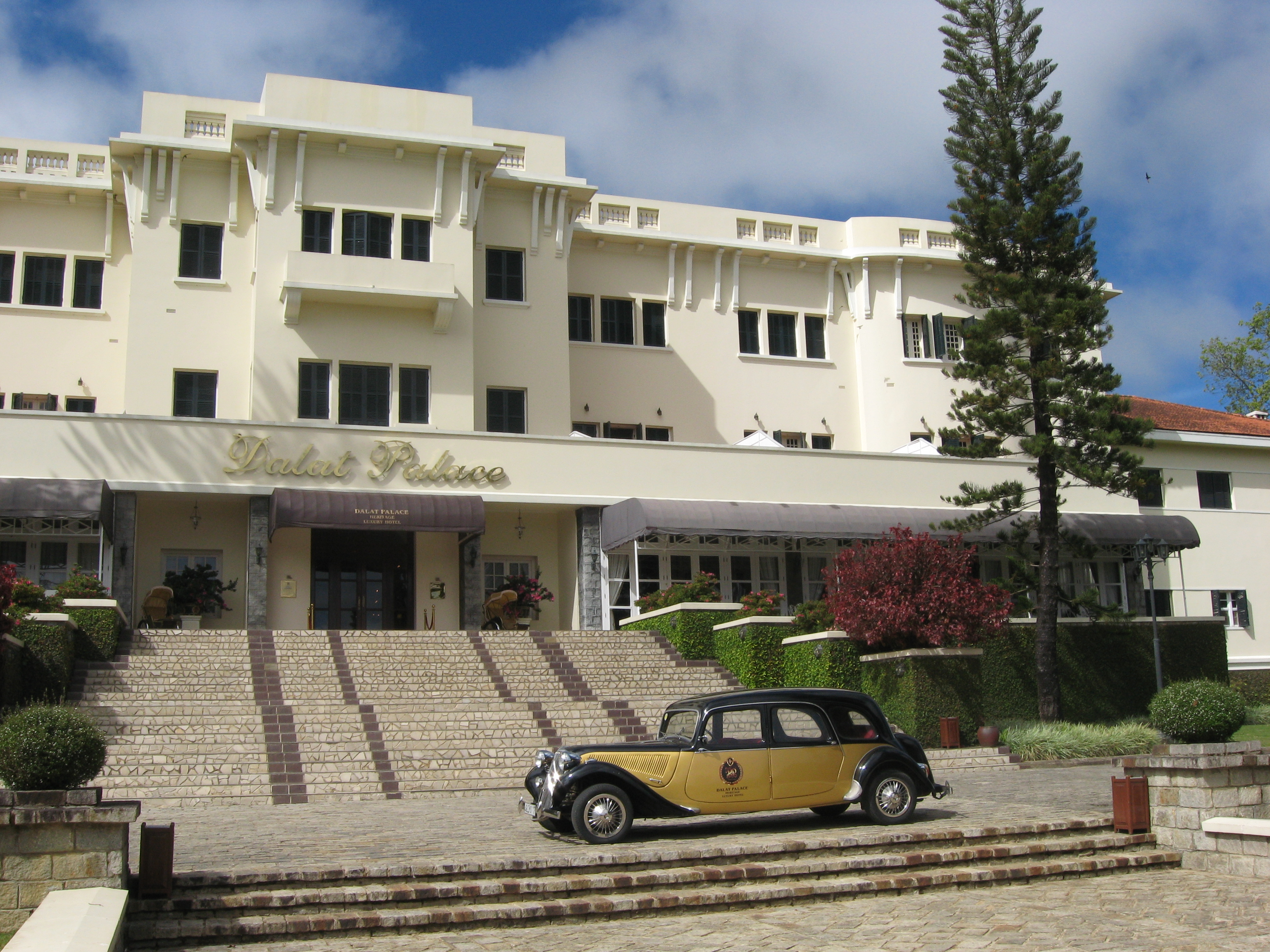 Dalat Palace Hotel